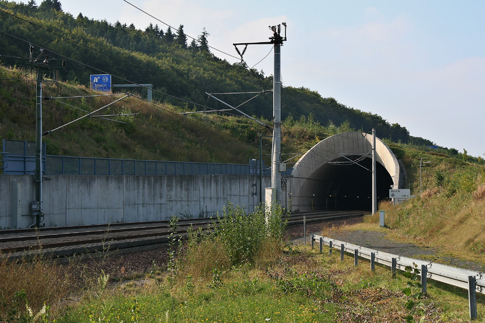 The south entrance to the Idstein Tunnel